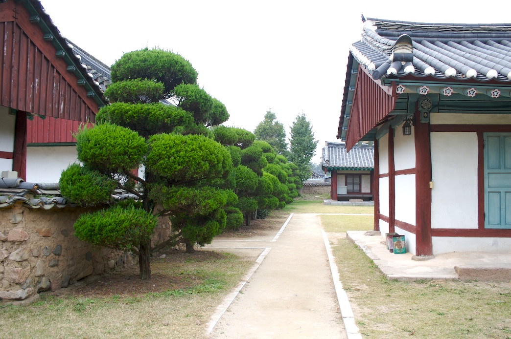 They love their trees. Korea Gyeongju 20061017 IMG_8804.jpg